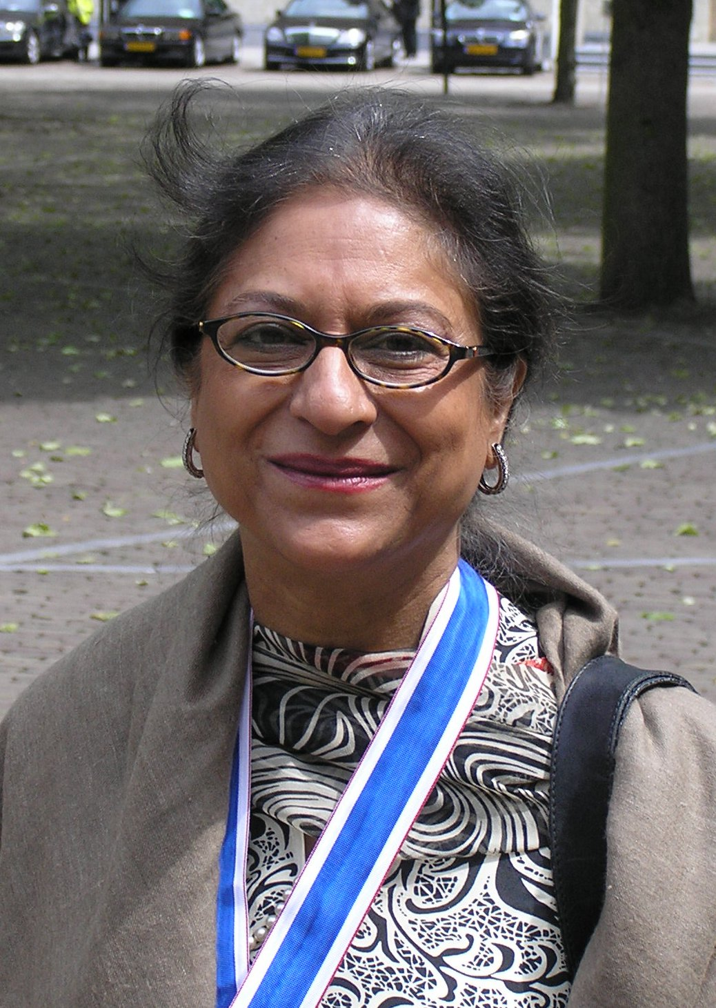 Asma Jahangir, shortly after being awarded the Freedom of Worship Award in Middelburg, the Netherlands, on the 29th of May in 2010.